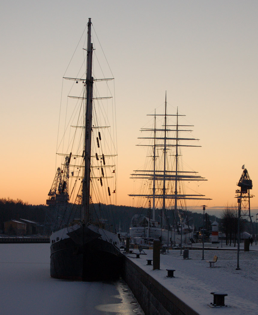 Estelle and Suomen Joutsen in Aura River winter 2005